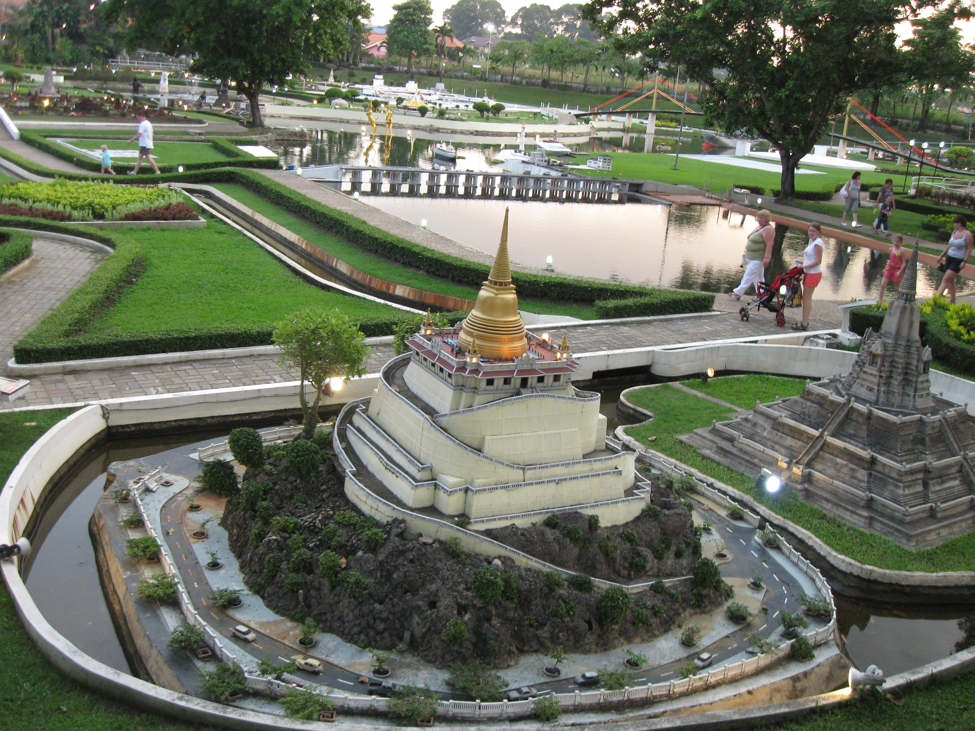 Mini Siam in Pattaya, Thailand, in November 2013.